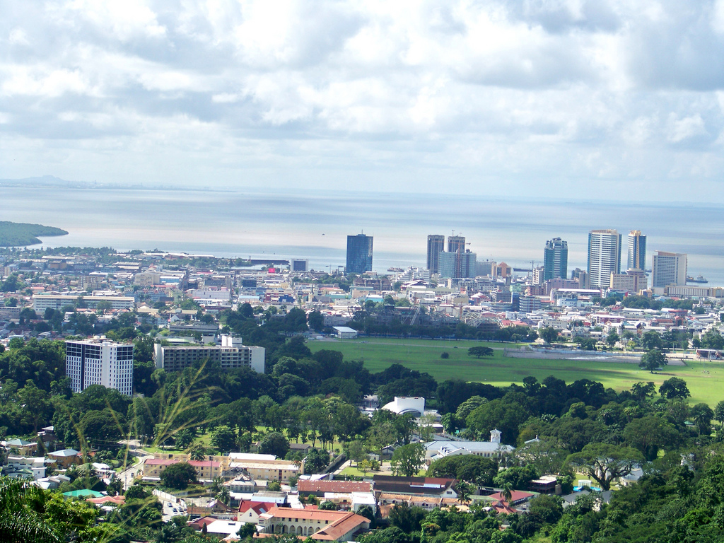 view of the queen's park savannah